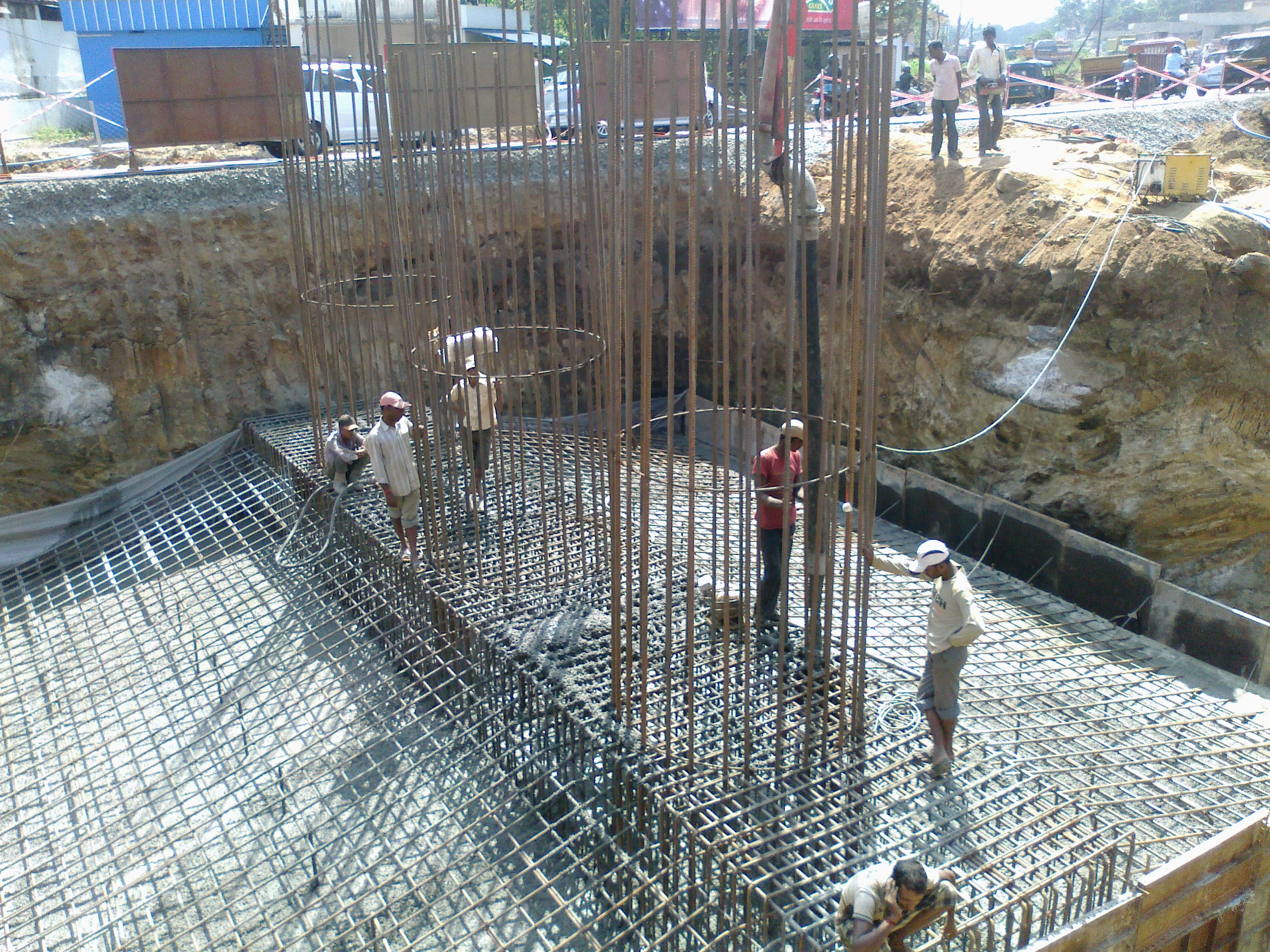 Concrete pumping truck pumping concrete for the abutment of a flyover. Place:Palakkad,Kerala,India